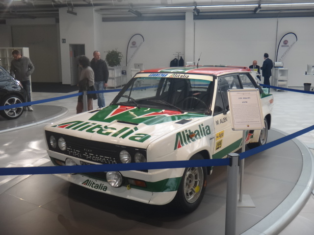 Fiat 131 Abarth Rally Car